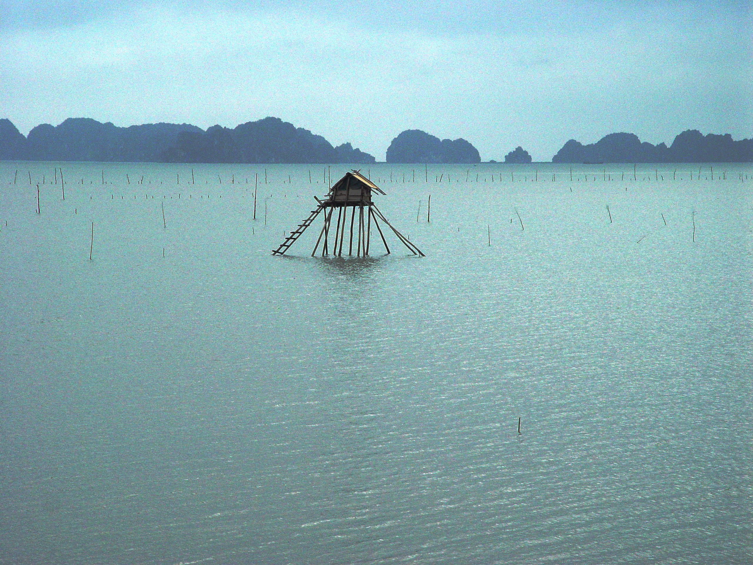 Fisherman's house, Ha Long Bay, Vietnam